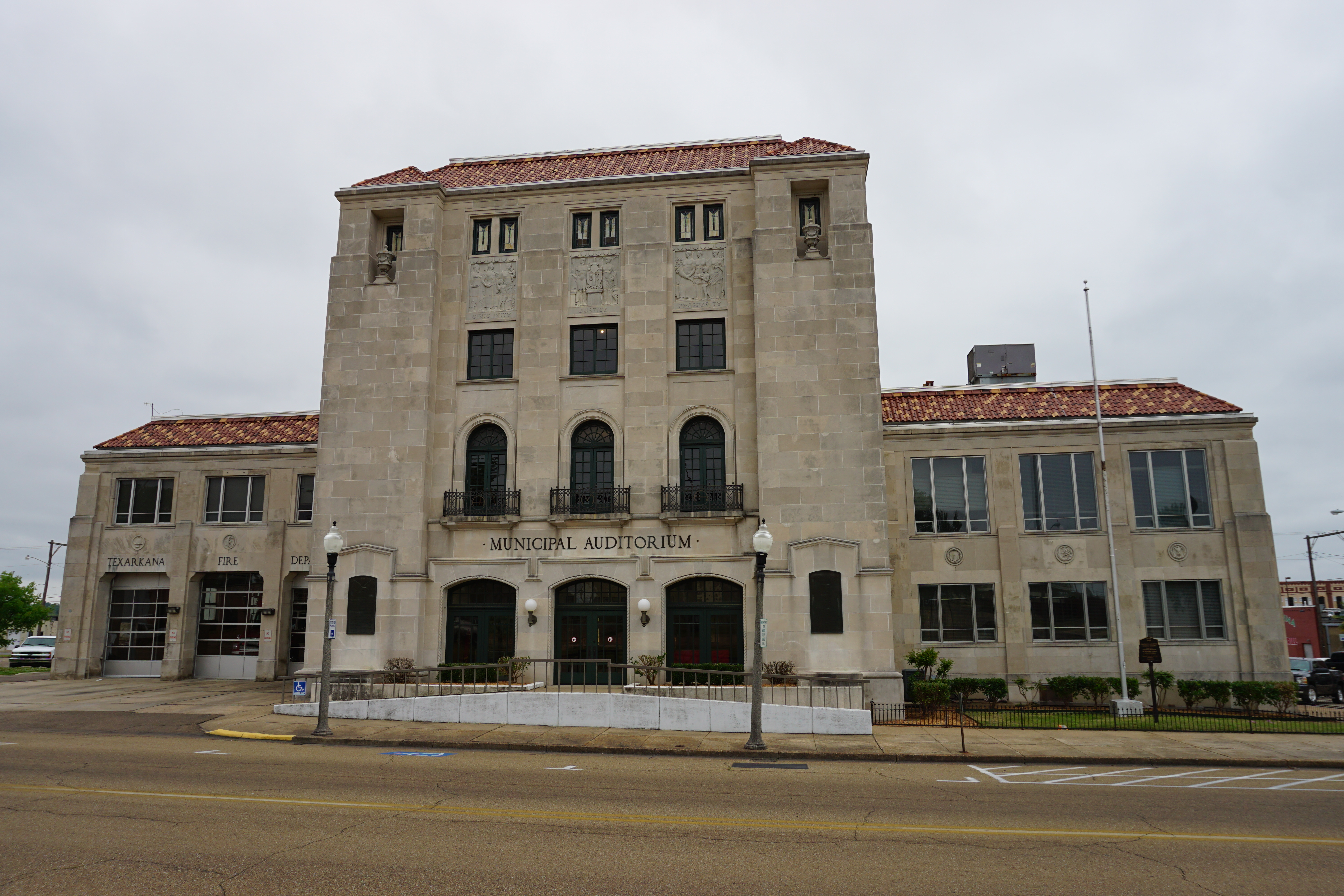 The Municipal Auditorium and Texarkana Fire Department station in Texarkana, Arkansas (United States).